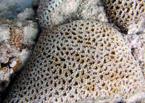 Dipsastraea pallida, Samoa Americana